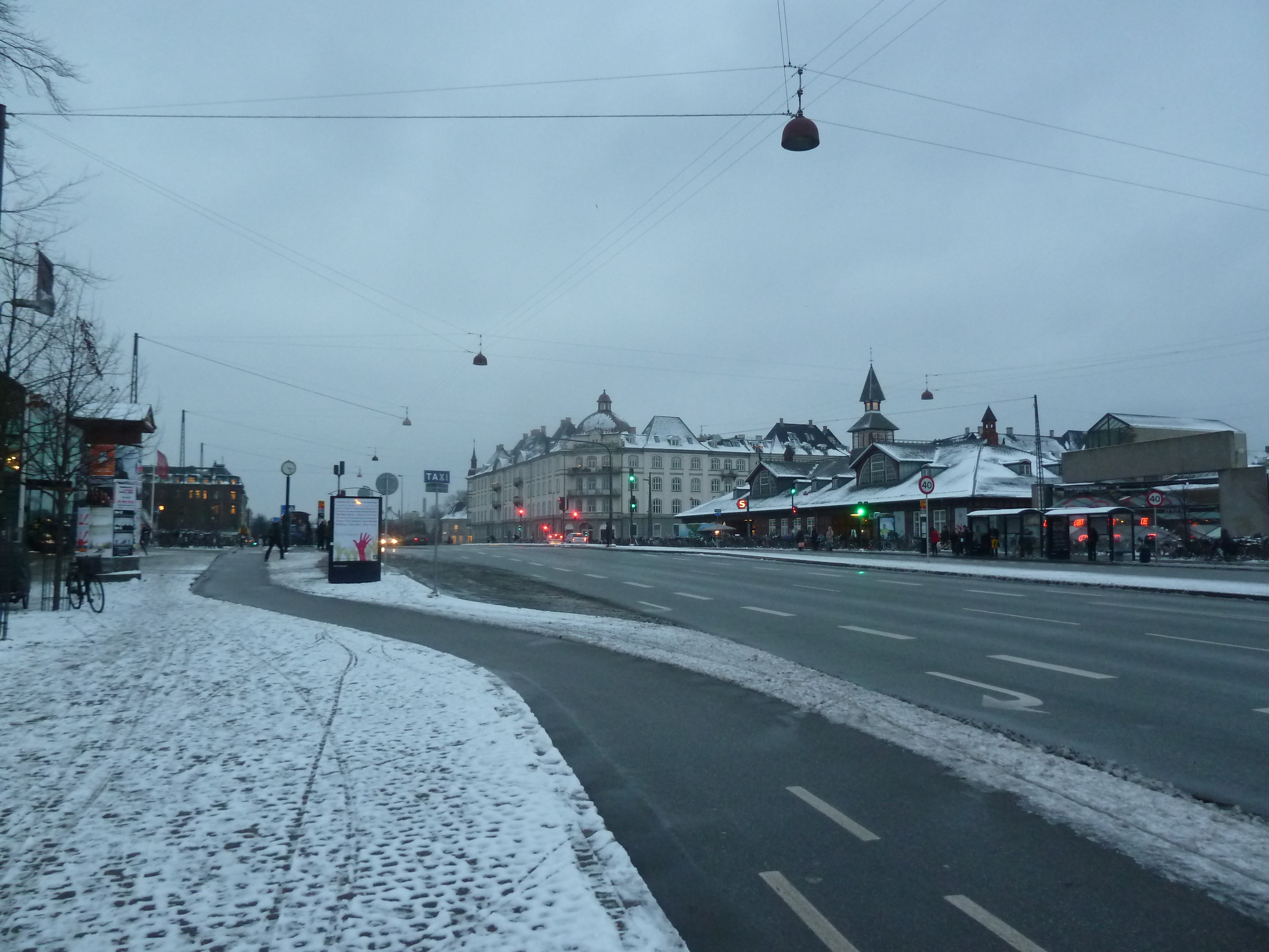 The square Oslo Plads at Østerport Station in Østerbro, Copenhagen.